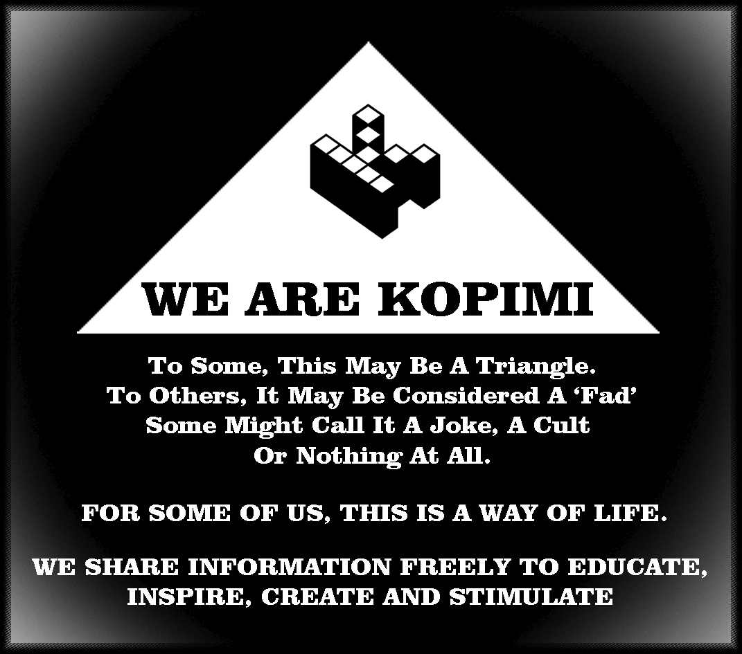 WE-ARE-KOPIMI